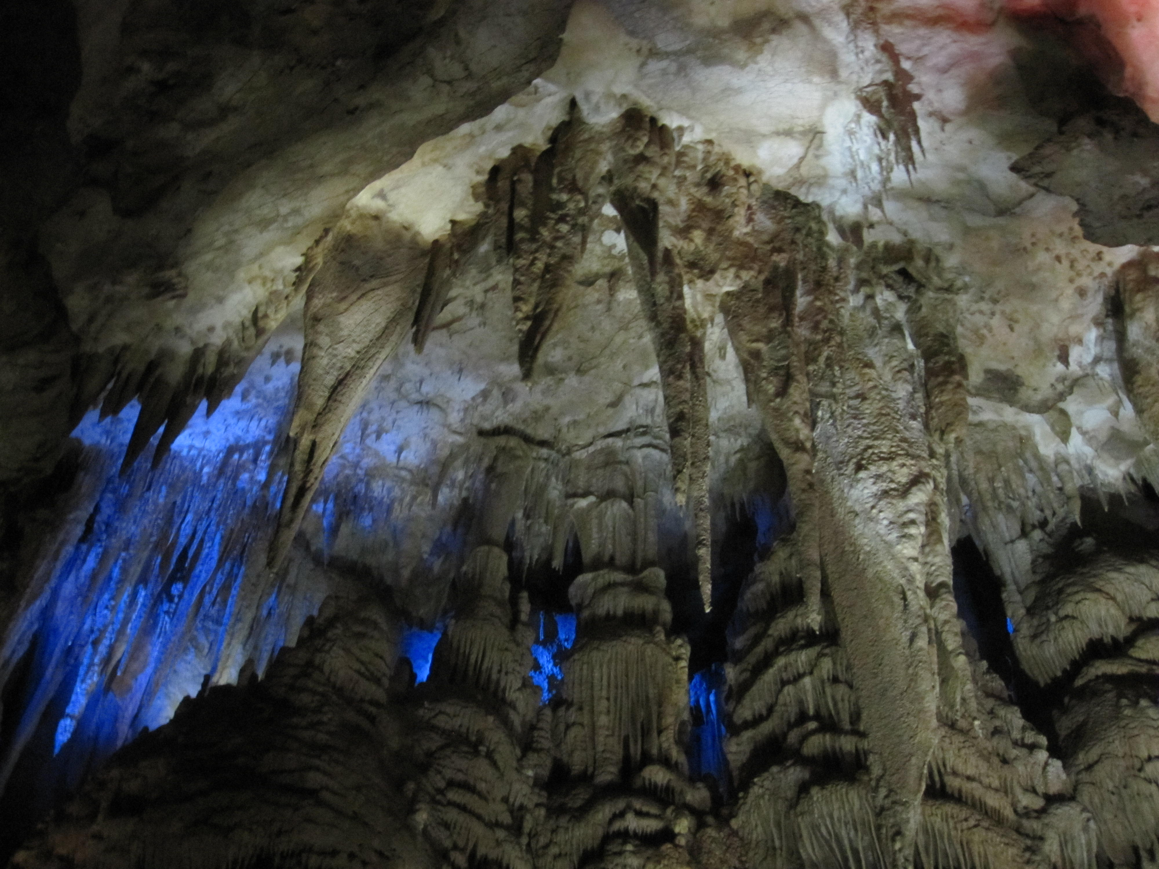 Kumistavi cave